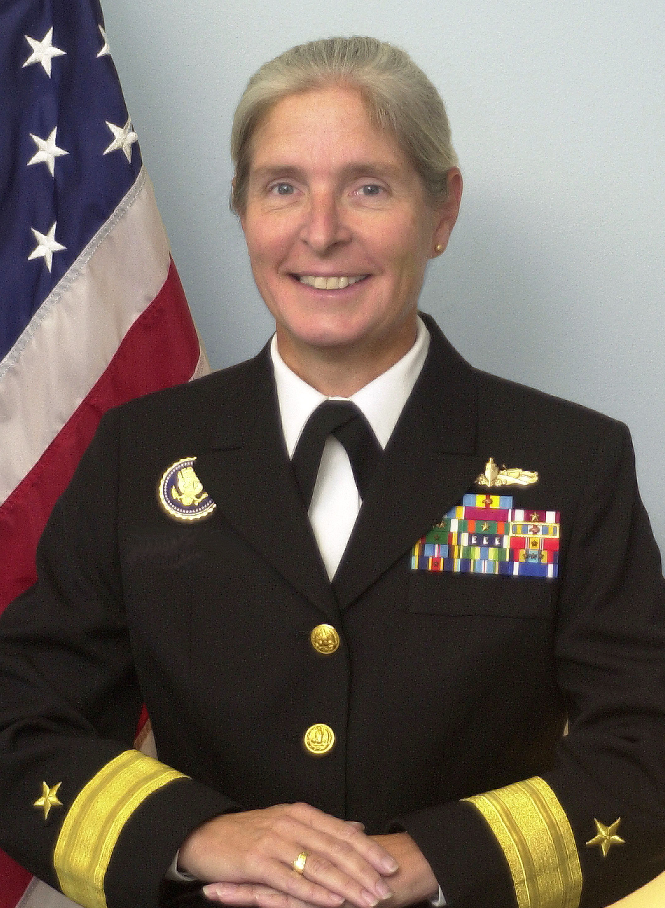 Rear Admiral (lh) Deborah Ann Loewer, commander, U. S. Navy Mine Warfare Command